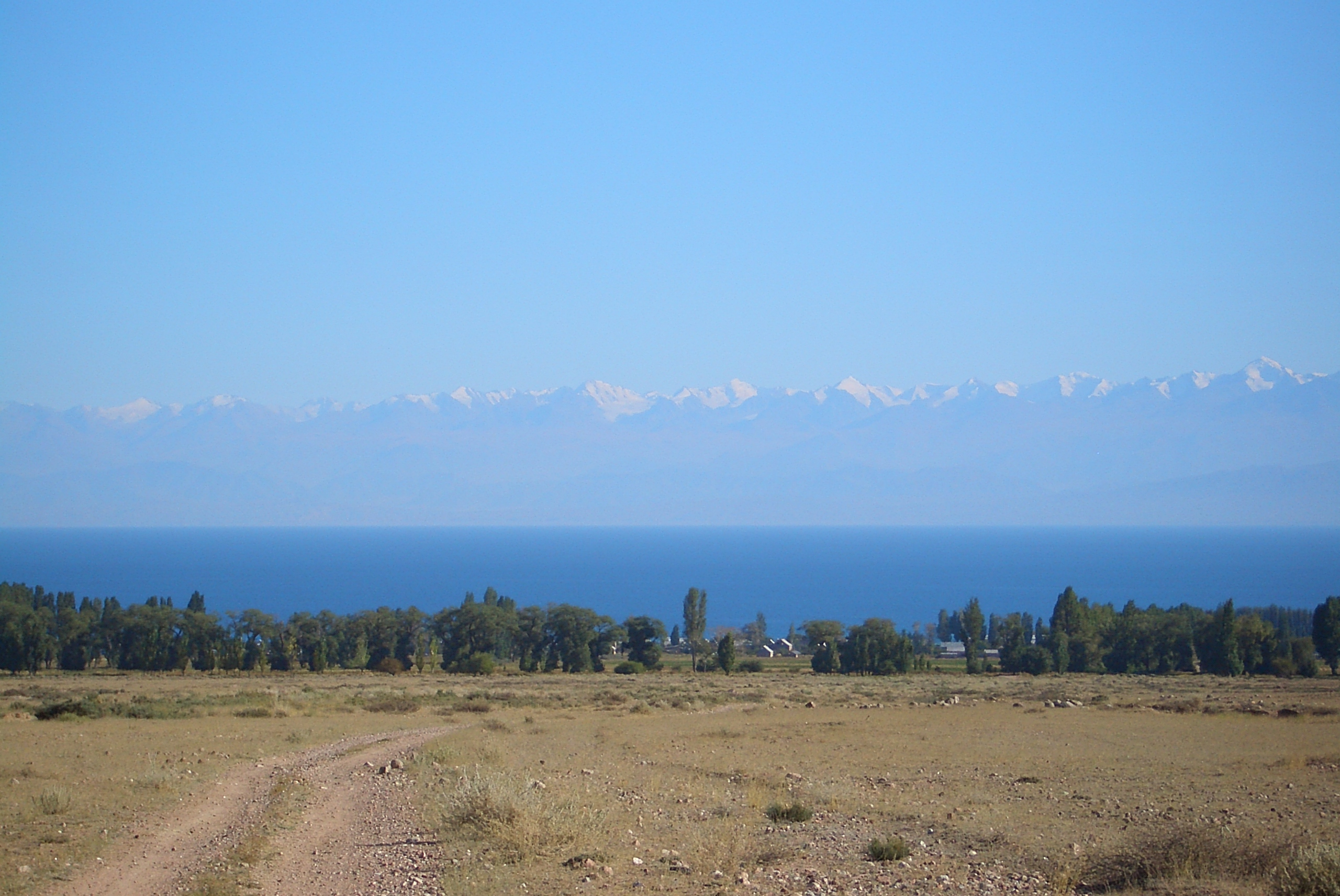 Tamchy skyline, seen from the plain a few kilometers inland. The Terskey Alatau Range - a ridge of the Tian Shan - is seen beyond the lake, maybe some 100 km to the south.